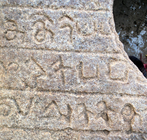 Trinco Chola insc sel